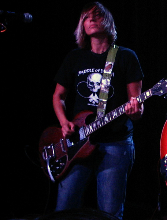 Kaia Wilson performing with Team Dresch at The Vera Project in Seattle, WA.